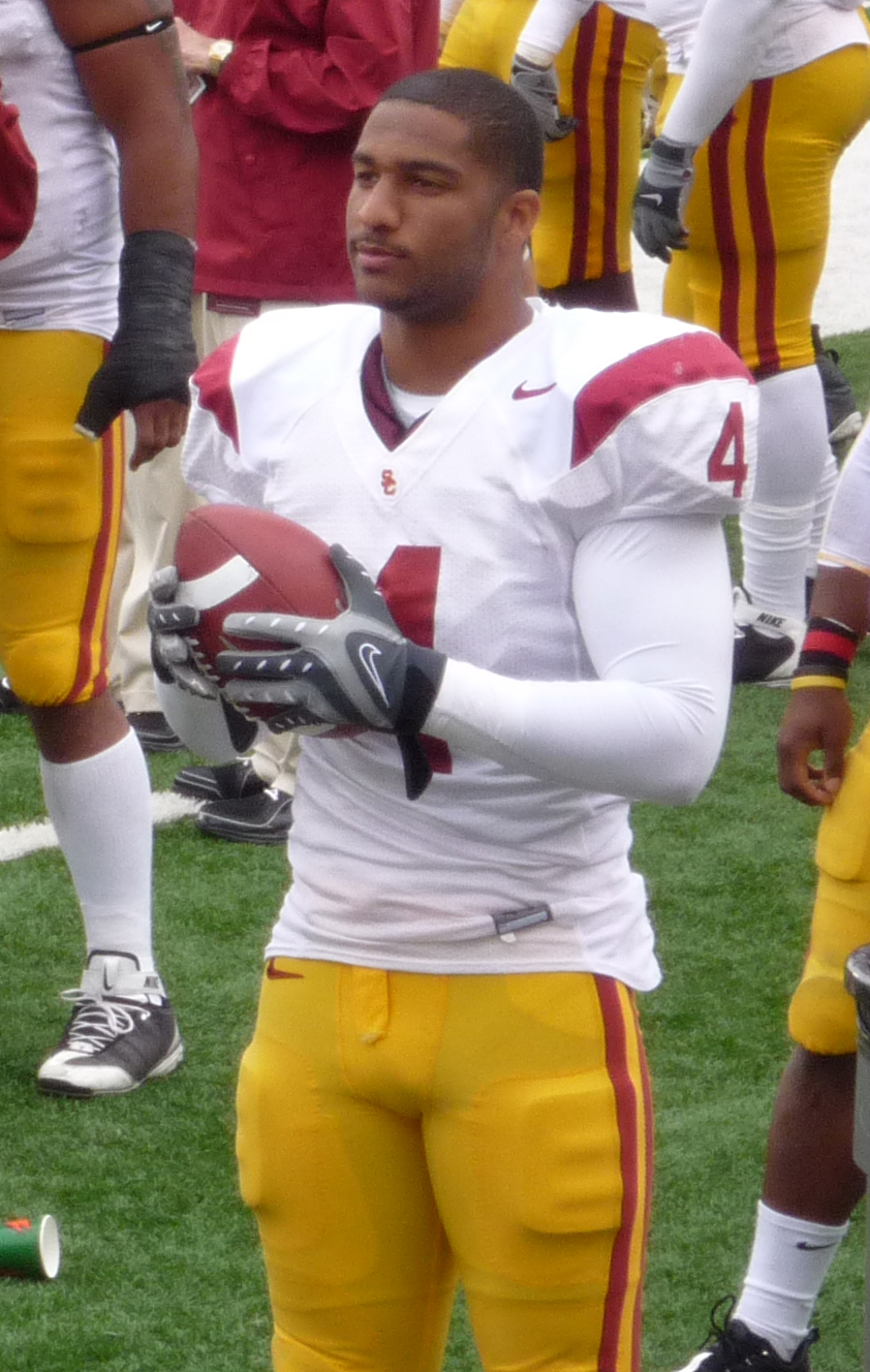 Safety Kevin Ellison, during the final minutes of a USC victory over the Washington State Cougars